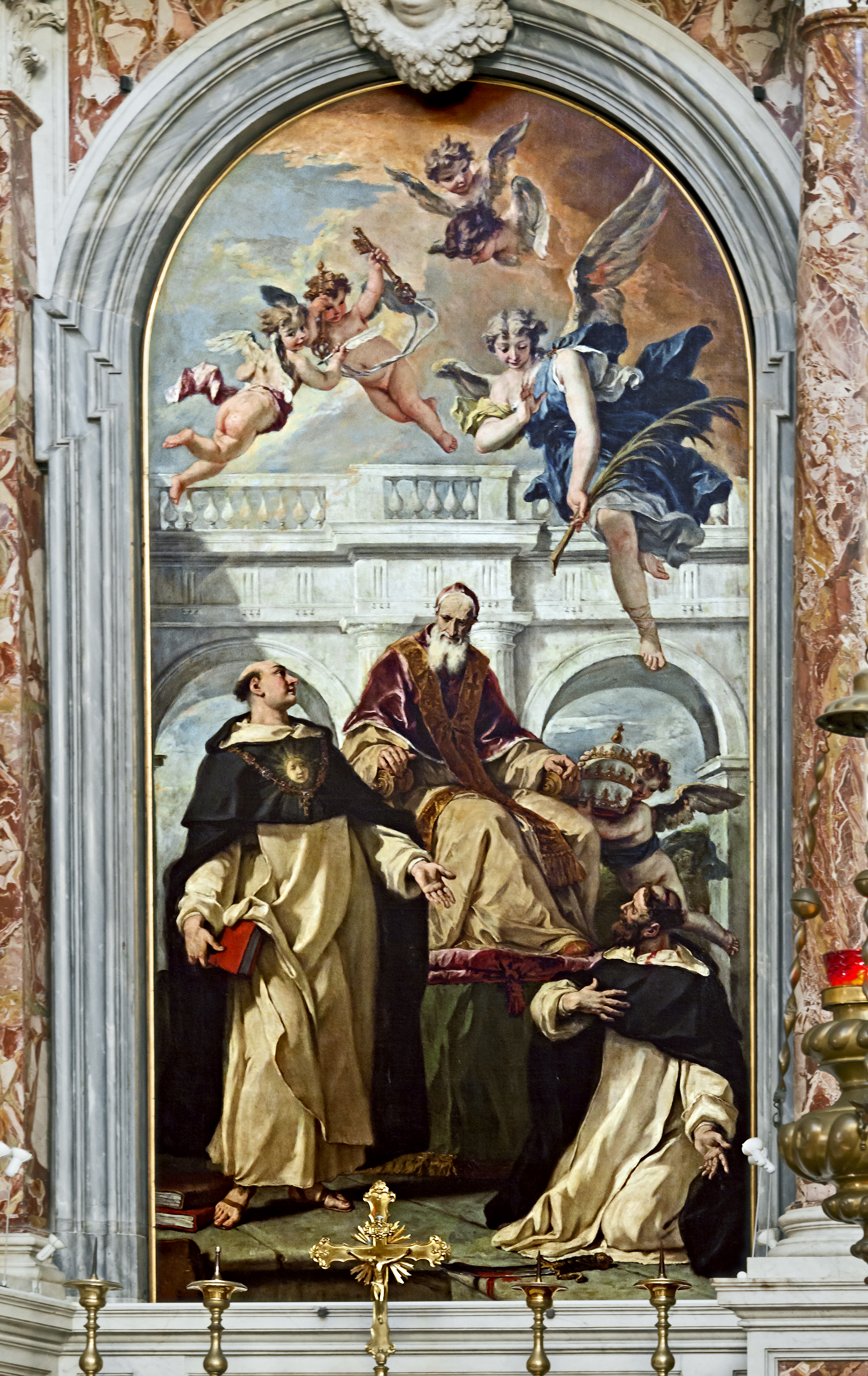 Chuch of Santa Maria del Rosario o dei Gesuati. "St Pius V, St Thomas of Aquino and St Peter Martyr" by Sebastiano Ricci between 1732 and 1733. Height 343 cm. width: 169 cm. Oil on canvas.